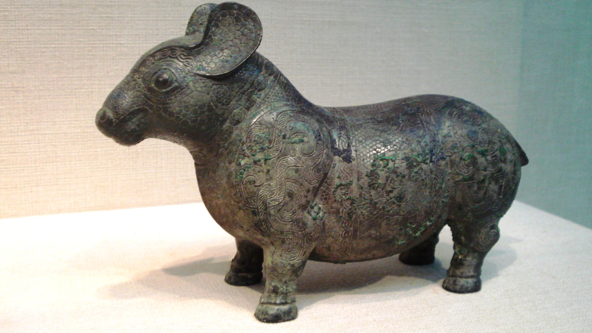 A Chinese bronze animal statuette, possibly of a tapir, from Houma, Shanxi Province, China. This piece of art is dated c. 500 BC, made during the Eastern Zhou Dynasty. The decorations covering the surface are cast, not incised.